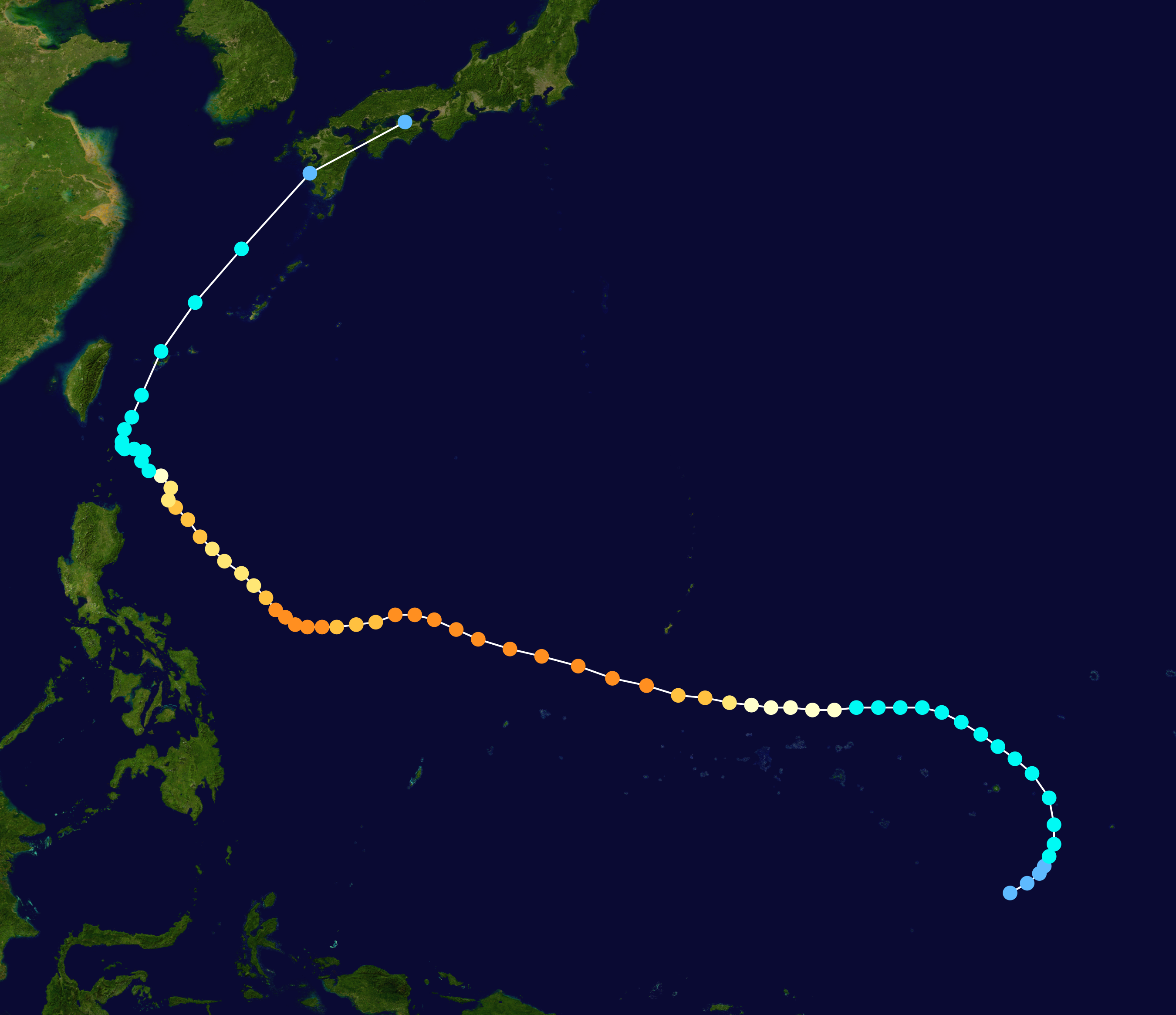 Typhoon Kujira 2003 track. Uses the color scheme from the Saffir-Simpson Hurricane Scale.